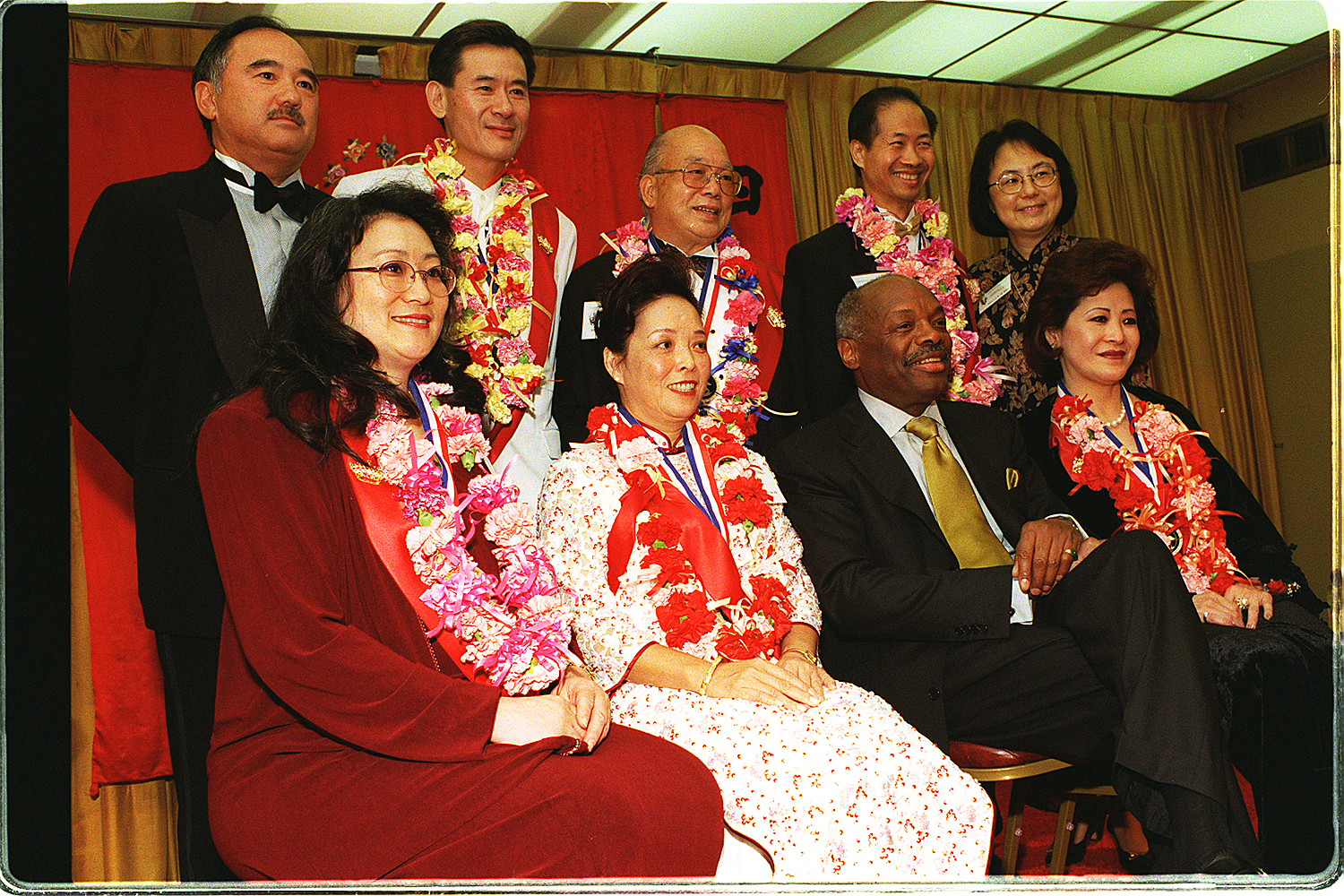 ASIAN VOTERS2/C/12NOV99/NANCY WONG MAYOR WILLIE BROWN COURTS CHINESE AMERICAN VOTERS BY ATTENDING A GALA BENEFIT DINNER FOR CHINESE NEWCOMERS AT 838 GRANT AVENUE, AT THE EMPRESS OF CHINA RESTAURANT IN SAN FRANCISCO'S CHINATOWN. HERE HE POSES WITH SOME OF THE PAST EMPERORS AND EMPRESSES OF THE BENEFIT DINNER.